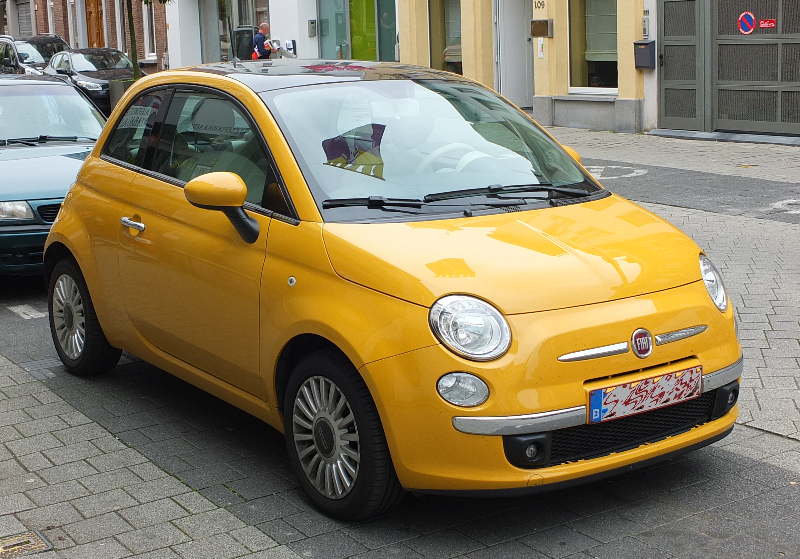 Fiat 500 (2007)